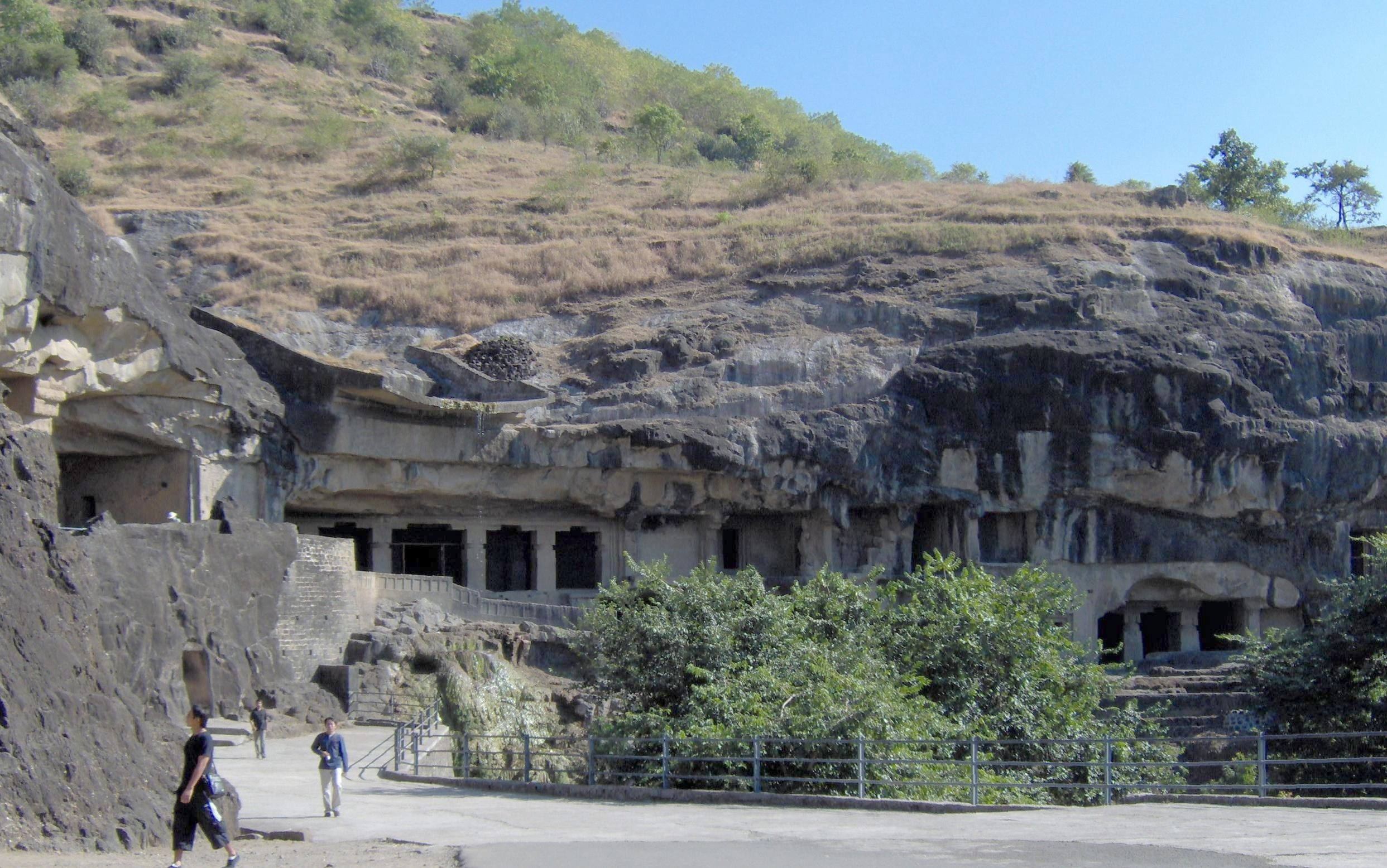 A view of the entrances to the Buddhist caves at Ellora in western Maharashtra. QuartierLatin1968 05:06, 12 December 2005 (UTC)